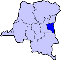 Locator map showing a province of the Democratic Republic of Congo